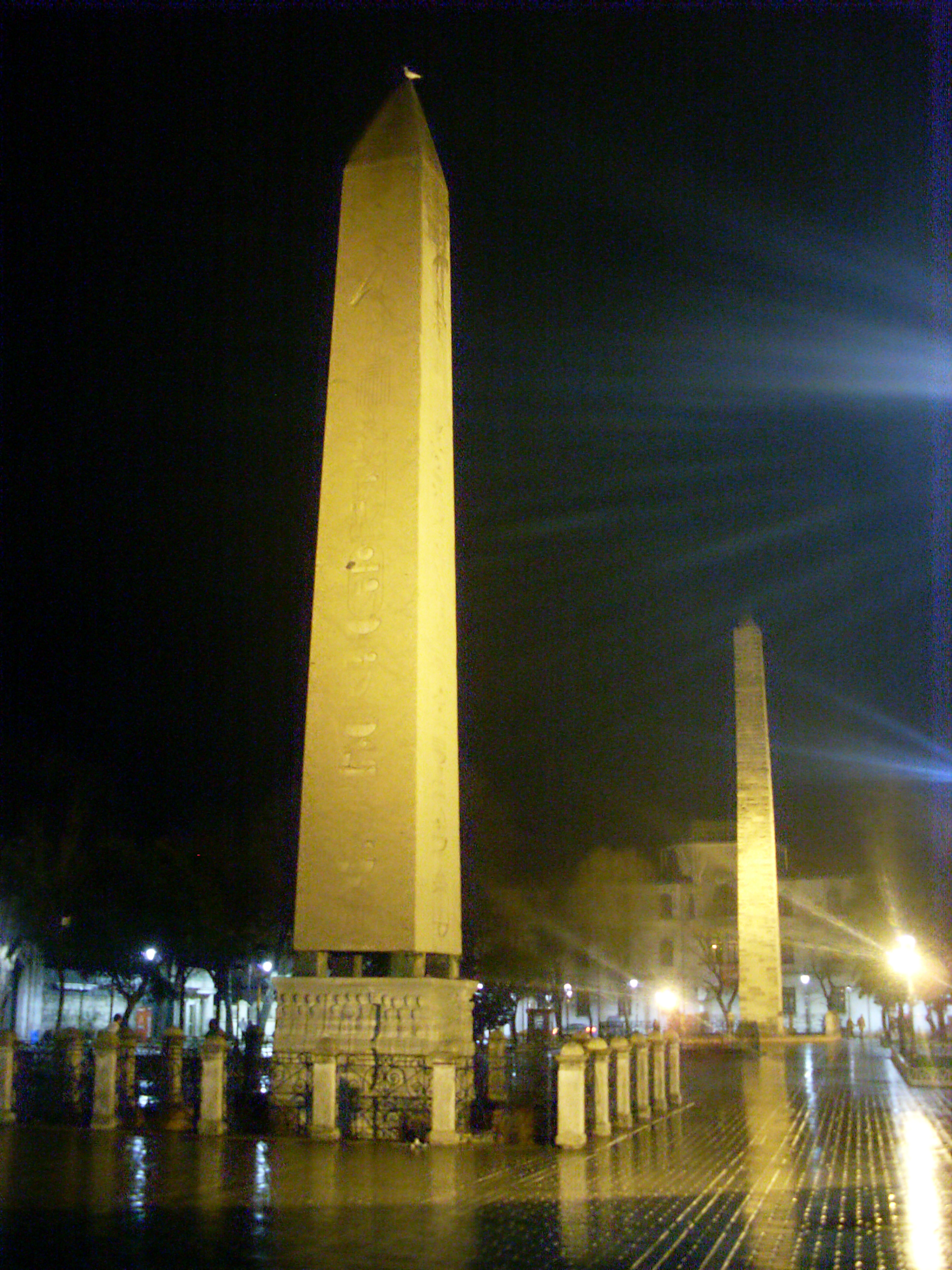 İstanbul - Obelisk of Theodosius (on the left) & Walled Obelisk (on the right) - feb 2013